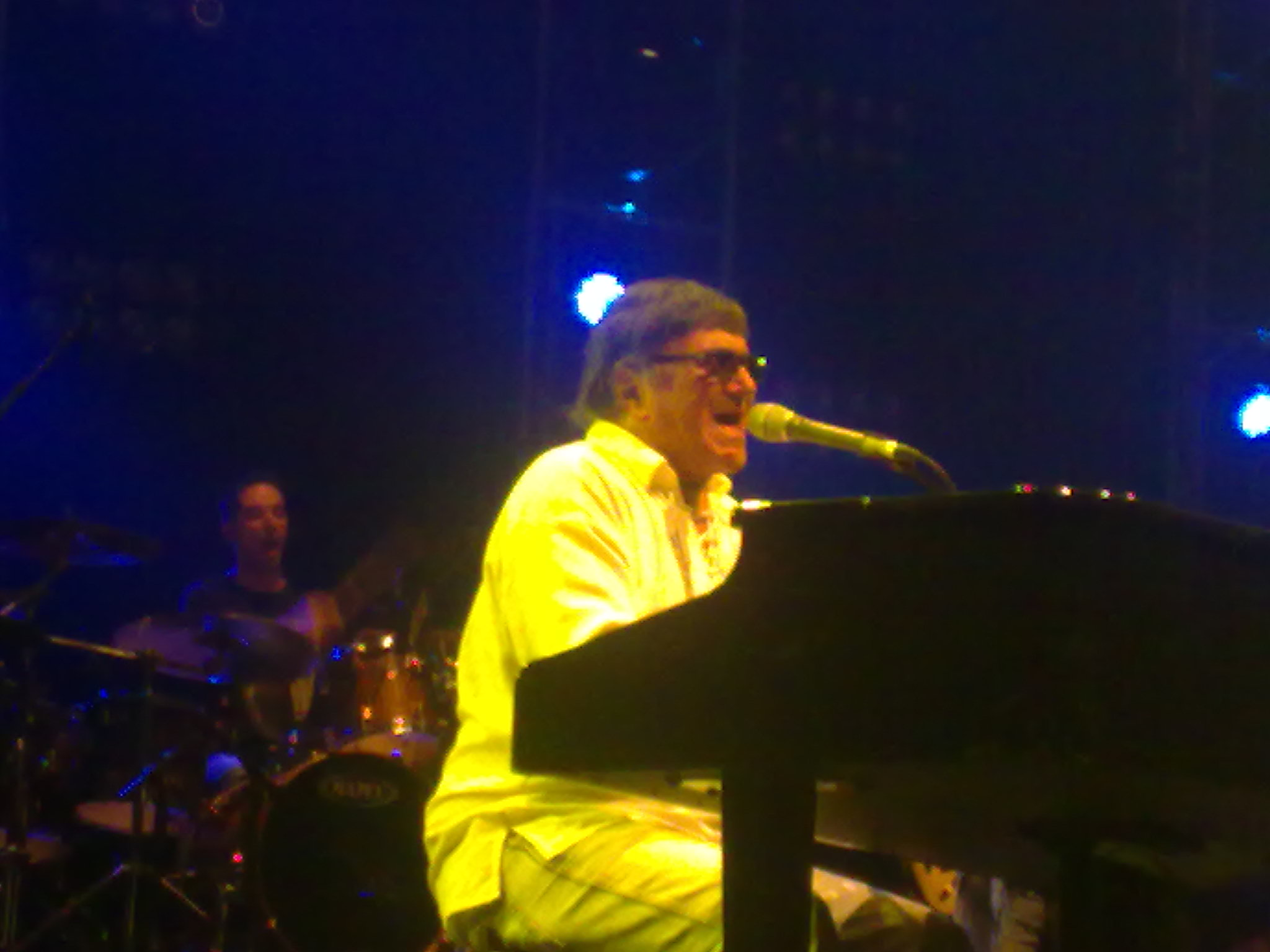 José Cid concert in Lisbon (Campo Pequeno) in 2009